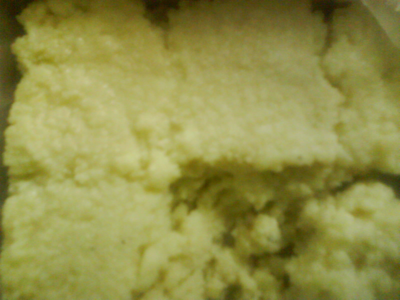 Kalakand